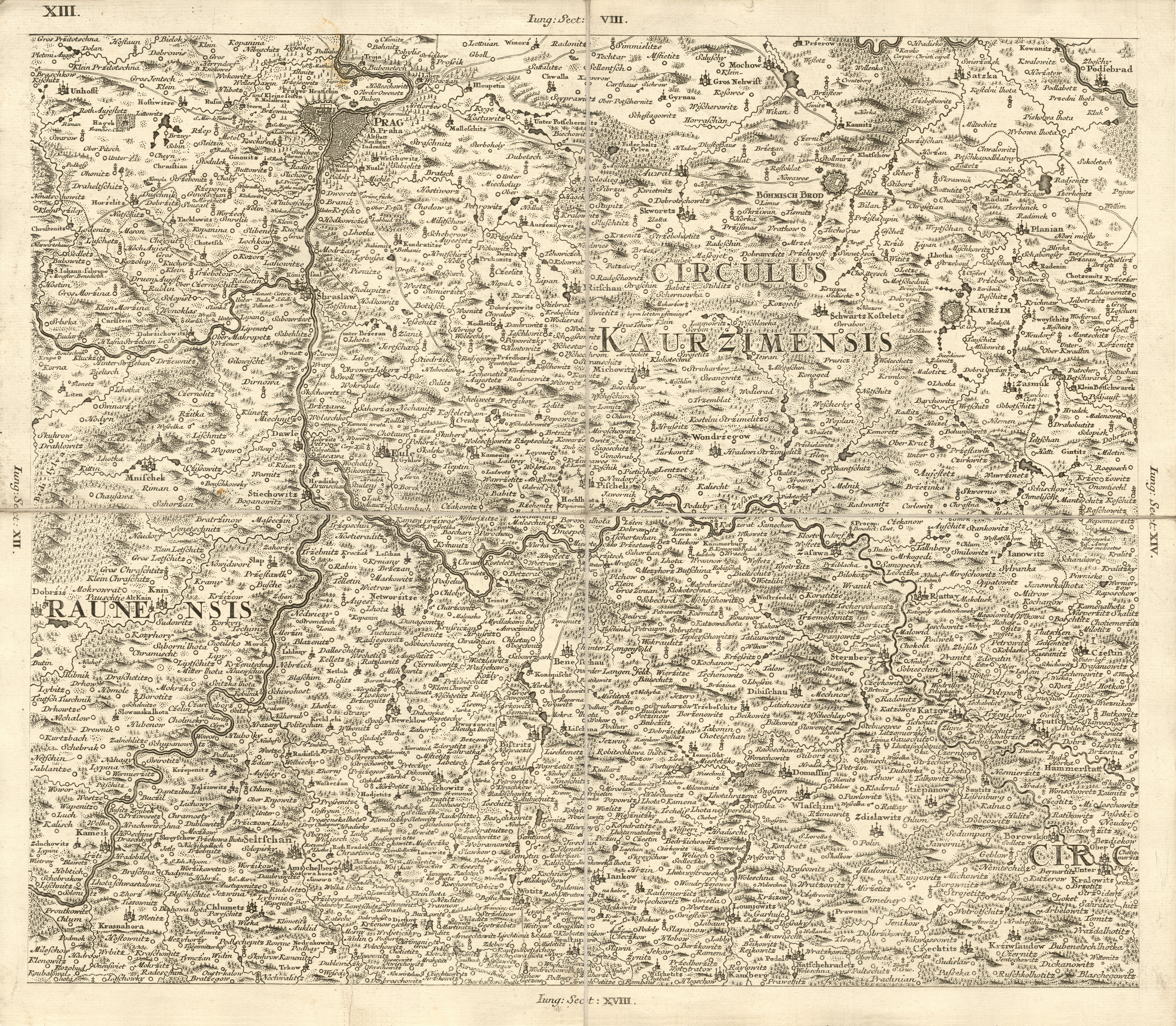 Müller's map of Bohemia.